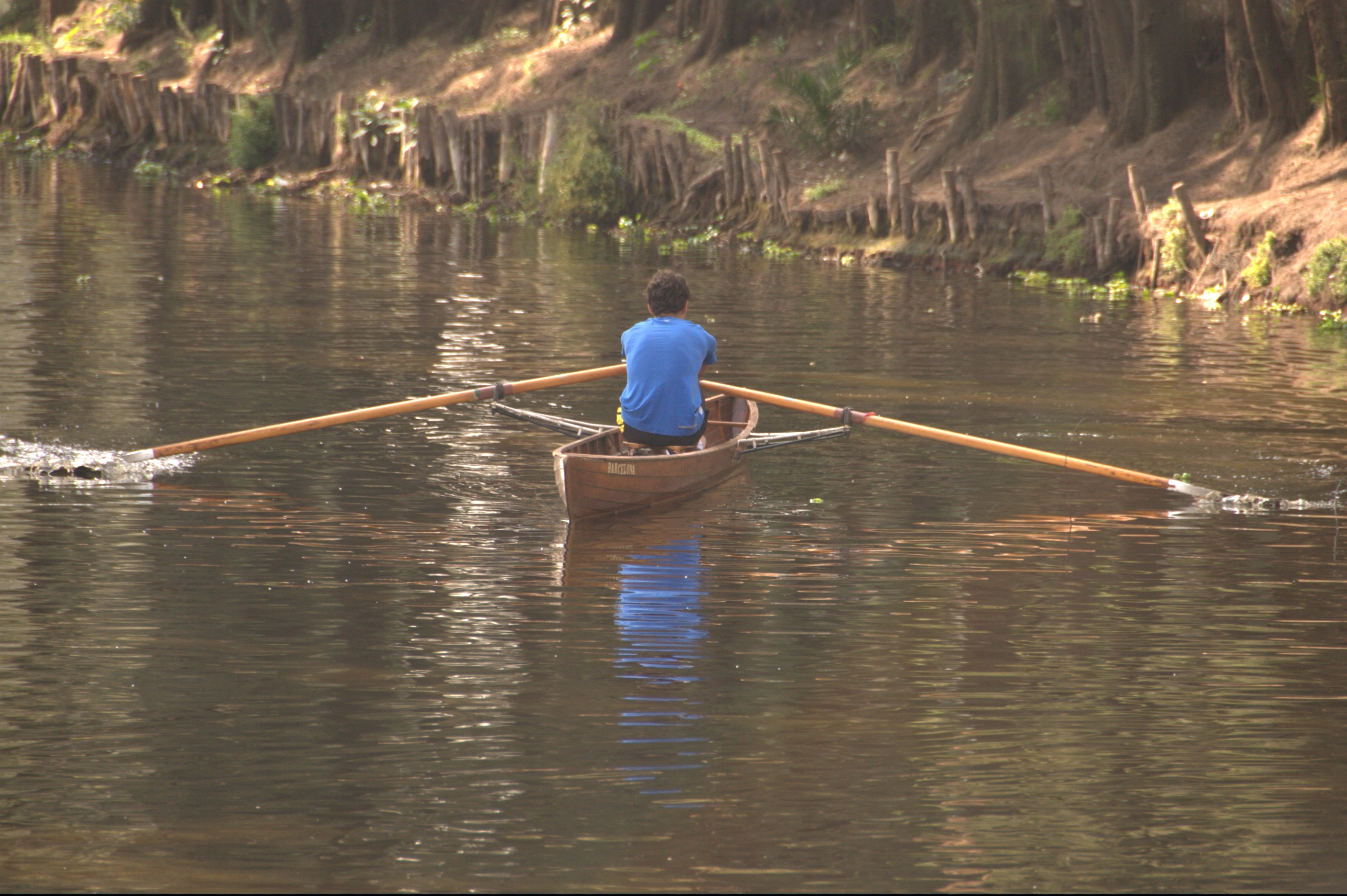 Rower in the Cuemanco canals in Xochimilco, Mexico City